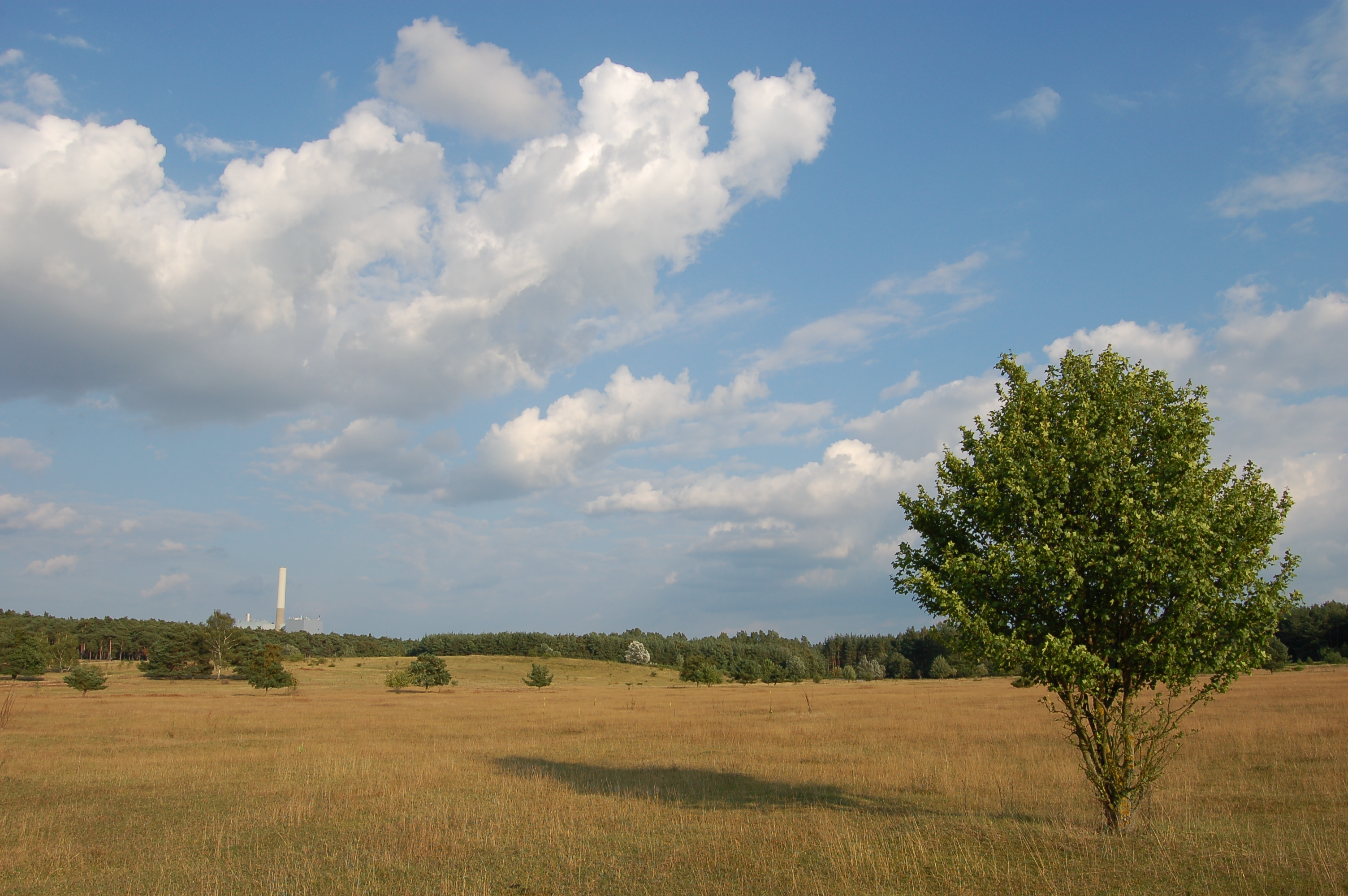 Nature reserve Hainberg, Fürth, Germany Camera: Nikon D50Lens: AF-S DX Zoom-Nikkor 18-55 mm 1:3,5-5,6G ED